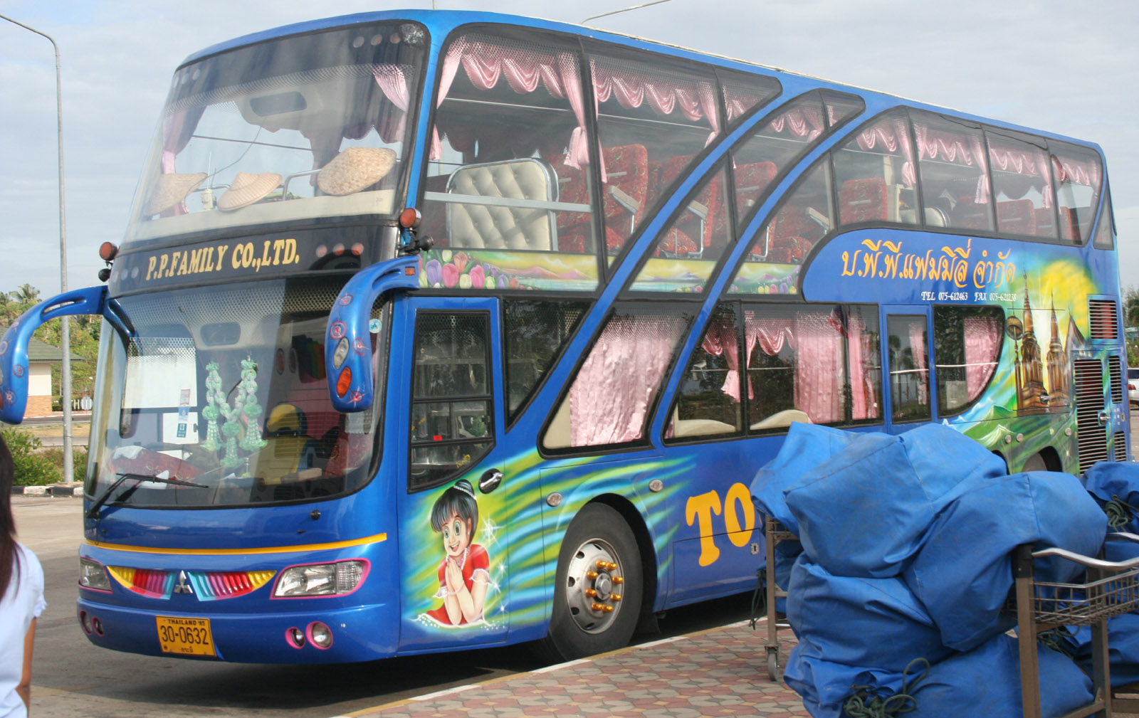 A brightly painted night bus, catering mainly to to tourists, provides overnight connections between the Andaman Coast and Bangkok.